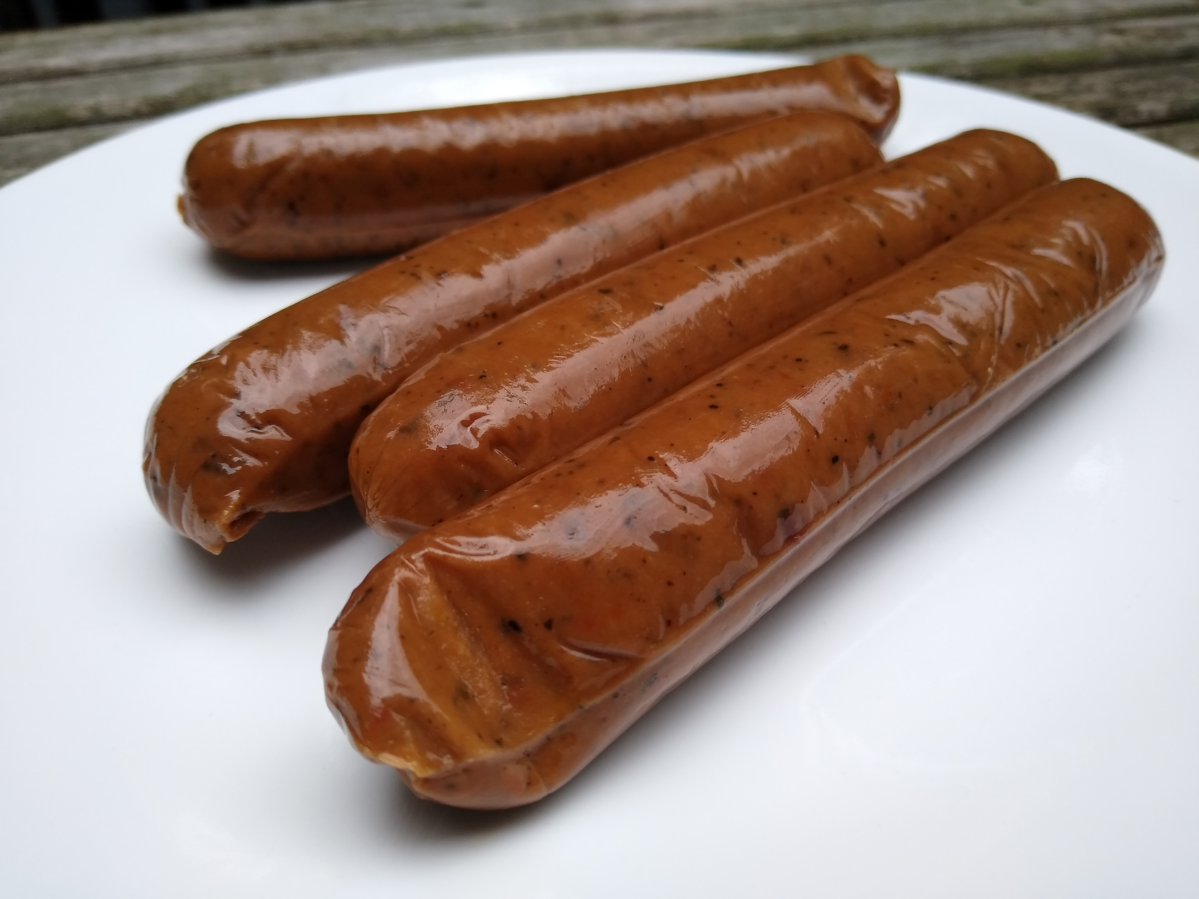 Tofurkey brand Plant-Based Original Sausage (Italian). A full (397 gram) package. Vegan. Uncooked.